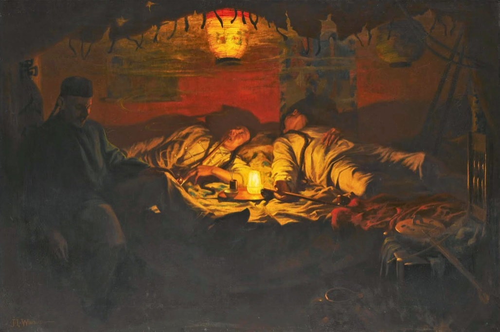 Lingering Clouds - Royal Academy of Arts Uk 889